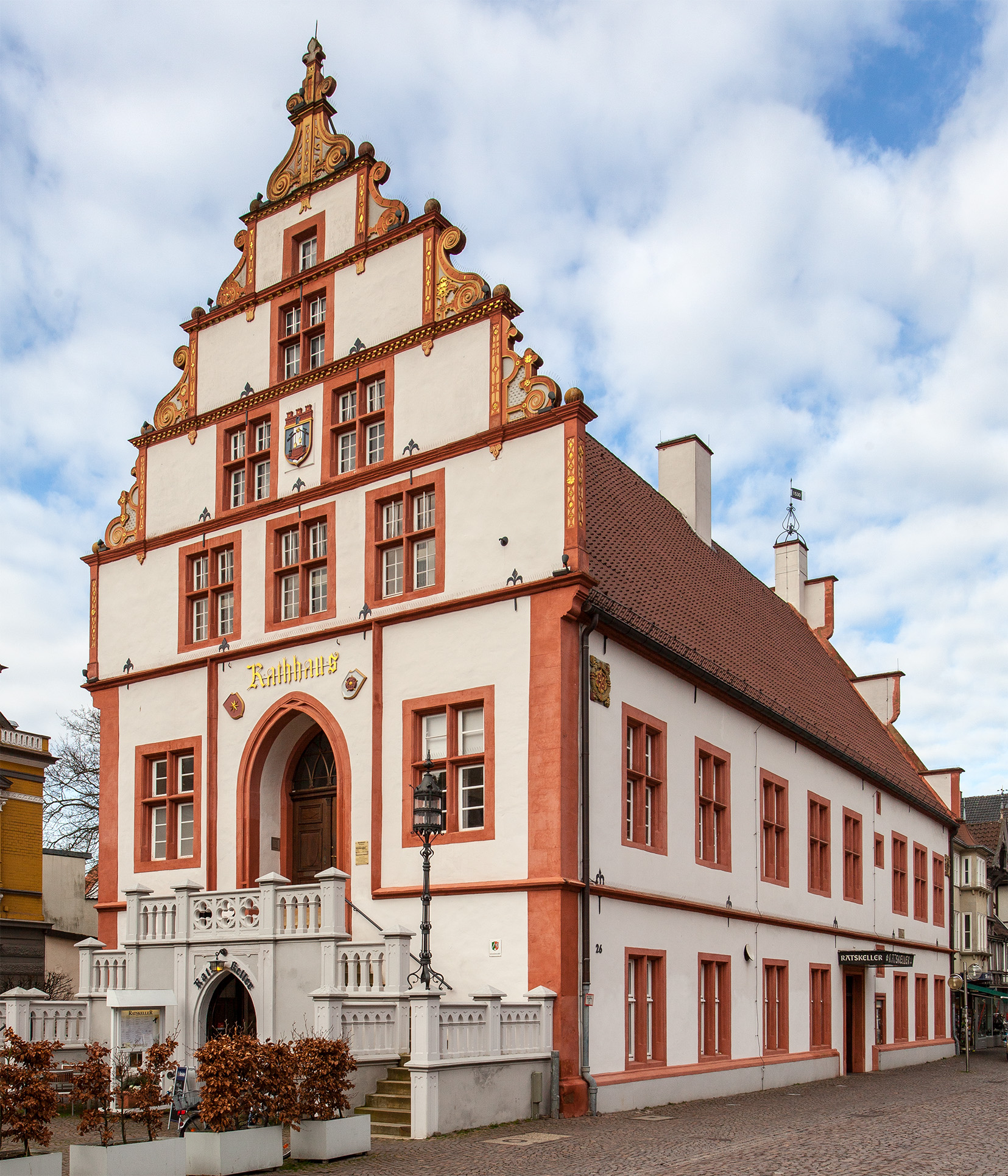 Historic town hall in Bad Salzuflen, Lippe District, North Rhine-Westphalia, Germany.